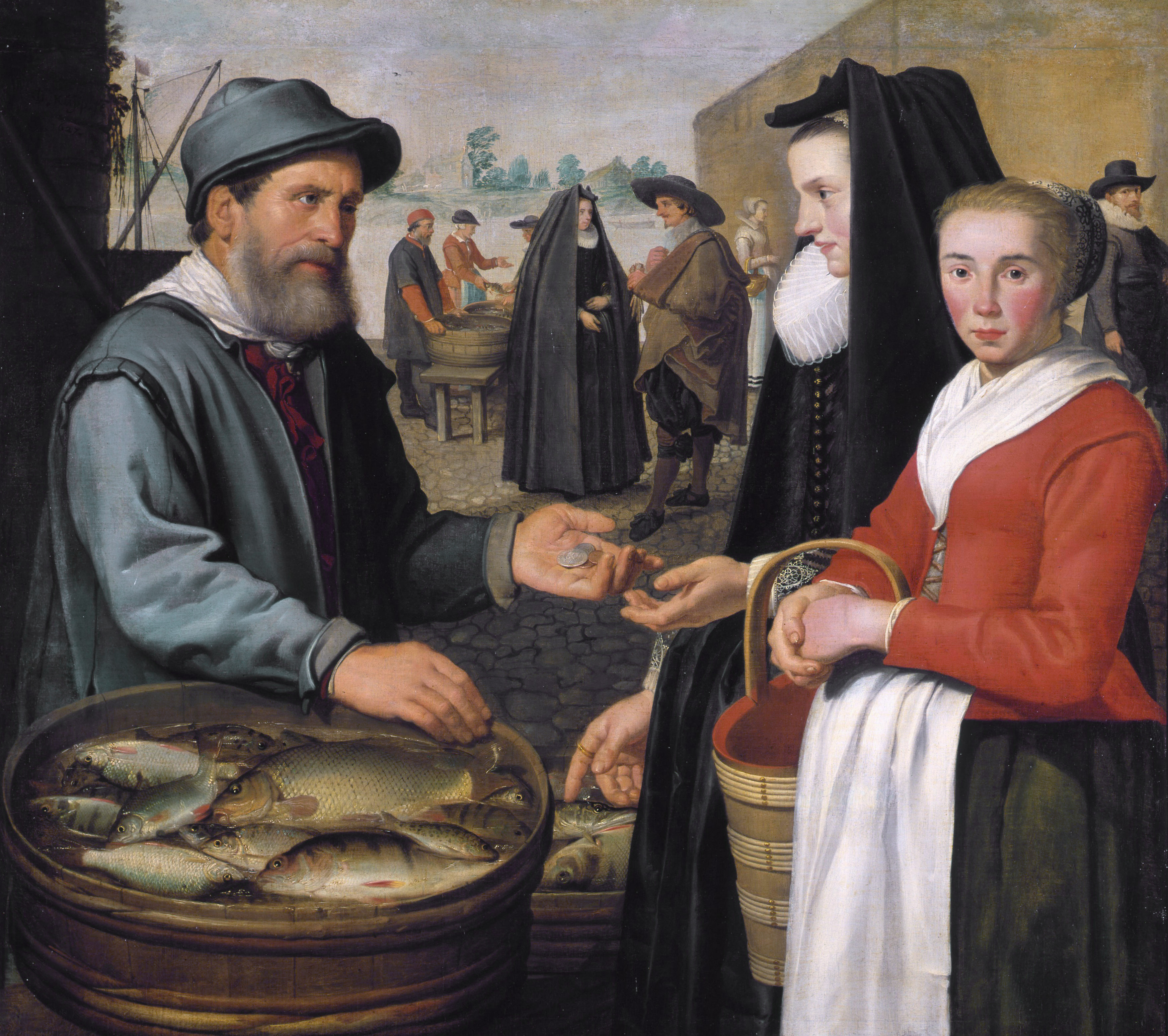 The fish-market oil on canvas 110.5 x 122.5 cm signed b.r.: JG Cuijp. ft. / 1627